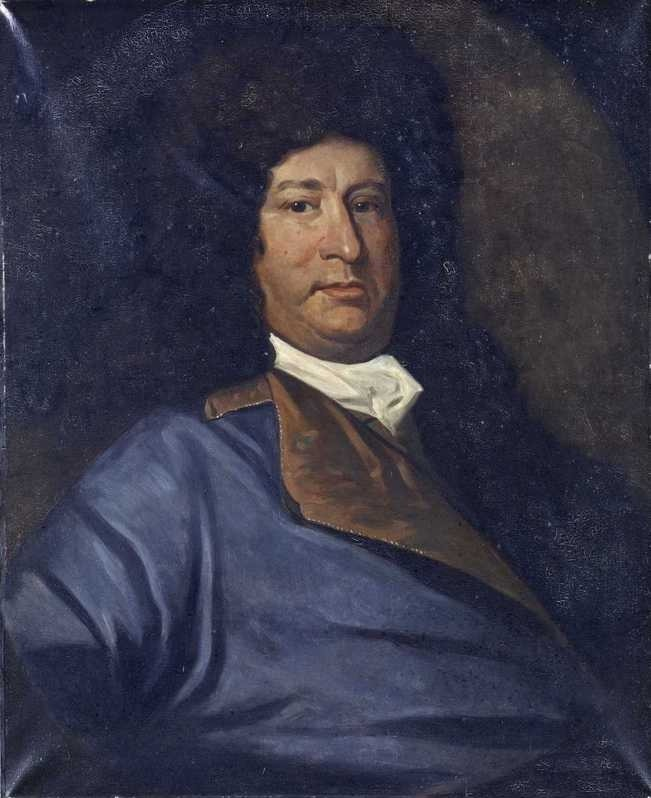 Copy after painting by Jacob Coning from 17th century.